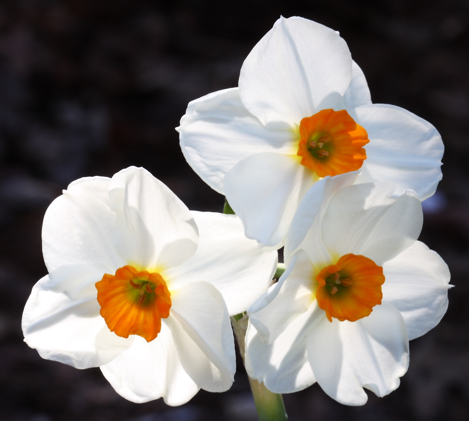 Narcissus tazetta hybrid 'Geranium'